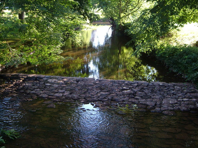 Weir on River Yeo at Fordton. Not a great deal of water crossing this weir immediately above Fordton Bridge, just south of Crediton. The river is making its way around the left end.